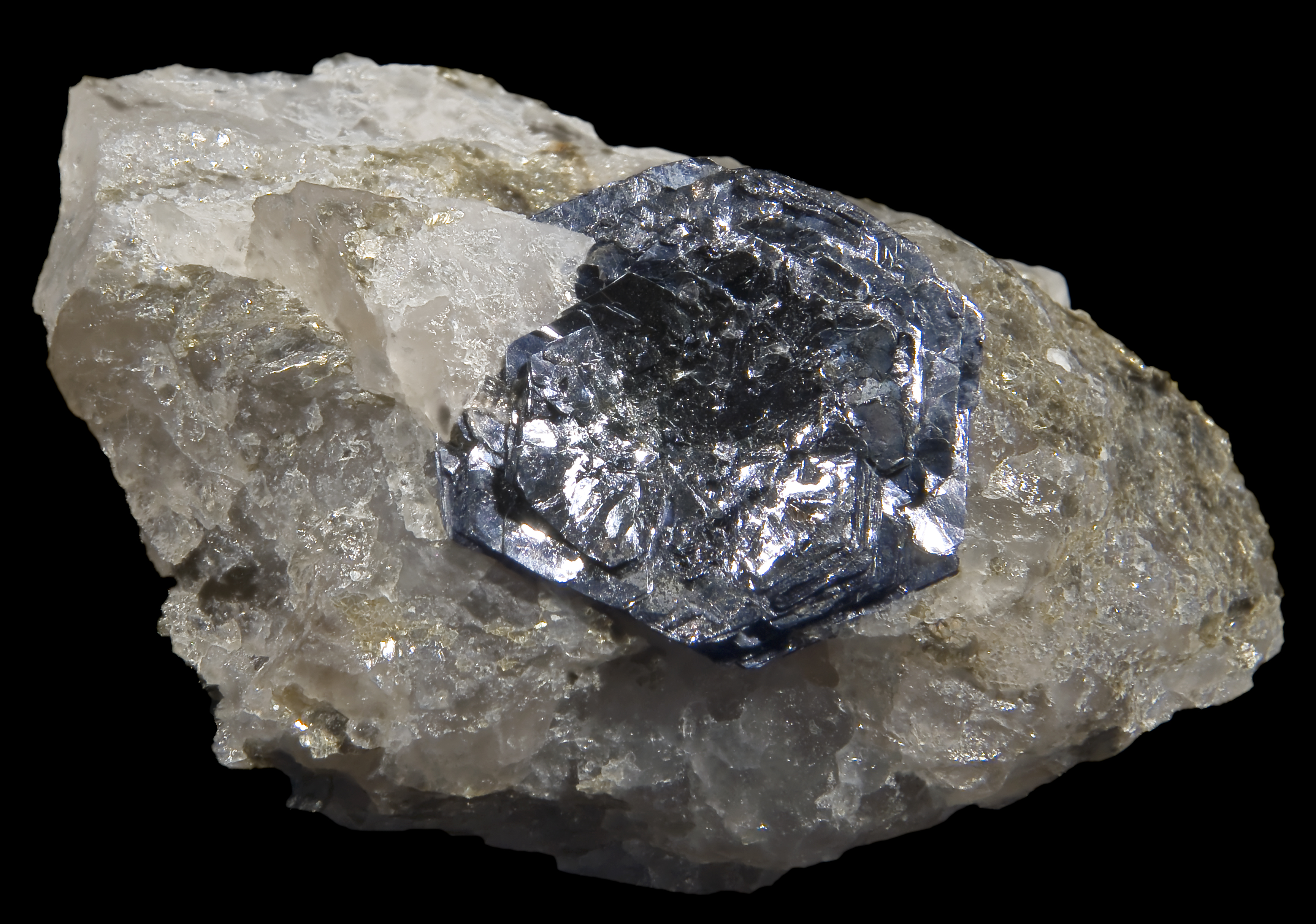 Molybdenite on quartz Locality : Moly Hill mine, La Motte, Abitibi RCM, Abitibi-Témiscamingue, Québec, Canada Size : 5.5 x 3 x 3 cm)